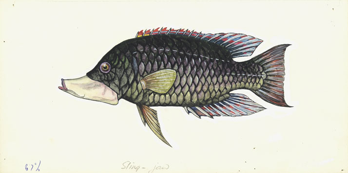 Artwork by Frank Olsen A species of wrasse native to the tropical waters of the Indo-Pacific from the Red Sea and the African coast to the Tuamotus and Hawaii, and from the southern waters of Japan to New Caledonia. This species can be found on coral reefs at depths from 1 to 42 metres. In Queensland, it is found along the entire length of the Great Barrier Reef. The standard name of the Slingjaw Wrasse refers to the fish's ability to protrude its mouth to capture prey such as crabs, shrimps and small fishes. When protruded the mouth can be up to half the body length. Description source: Australian Museum, Wikipedia View the original image at the Queensland State Archives: Digital Image ID 6108